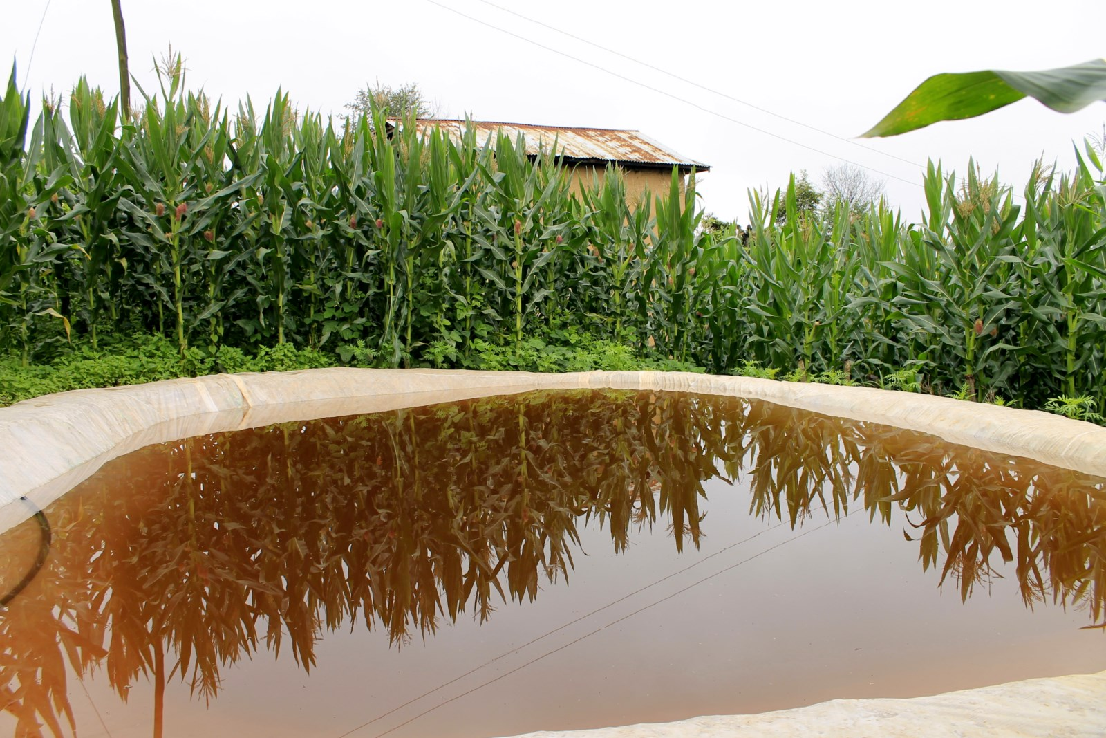 Rainwater harvesting is the accumulation and deposition of rainwater for reuse before it reaches the aquifer. Uses include water for garden, water for livestock, water for irrigation, etc. In many places the water collected is just redirected to a deep pit with percolation. The harvested water can be used as drinking water as well as for storage and other purpose like irrigation.